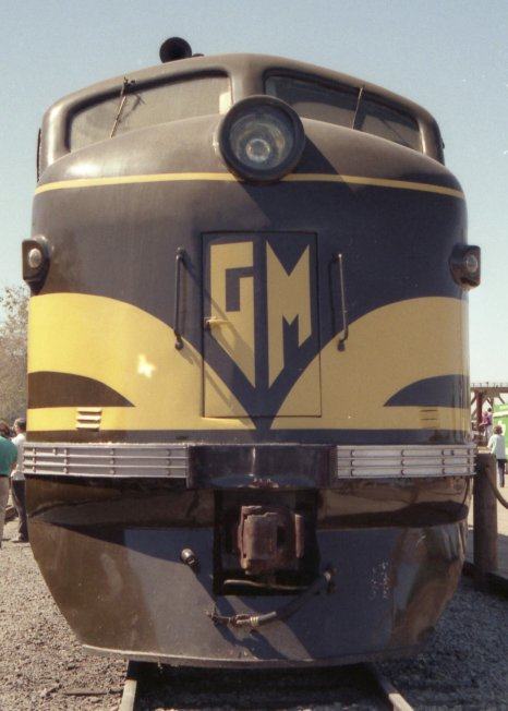 The nose of GM 103, the first EMD FT, on display at Railfair '91 at the California State Railroad Museum in Sacramento, California, May 10, 1991. Photo by Sean Lamb (User:Slambo)